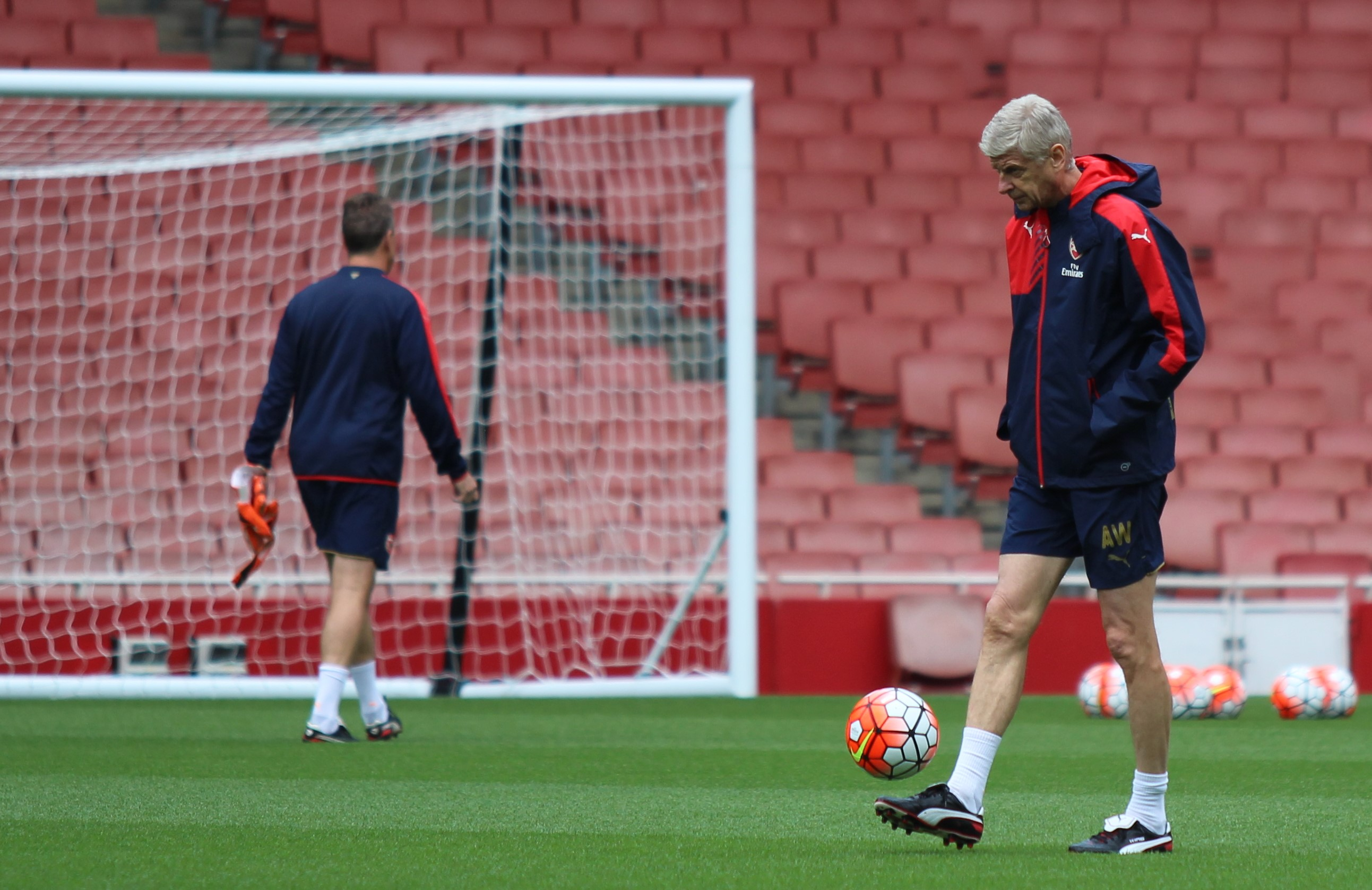 Arsenal manager Arsene Wenger during the 2015 Arsenal Members' Day Open Training Session.